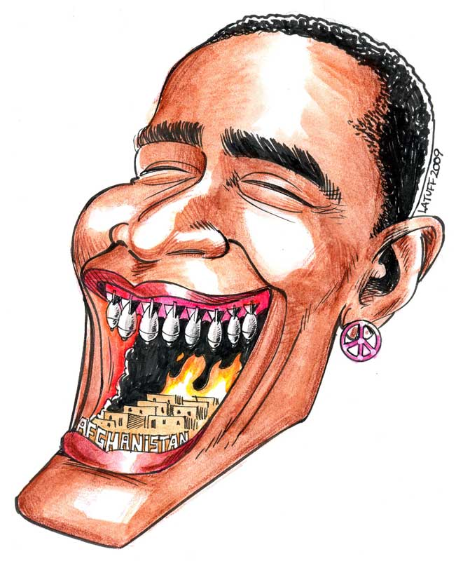 More troops for Afghanistan